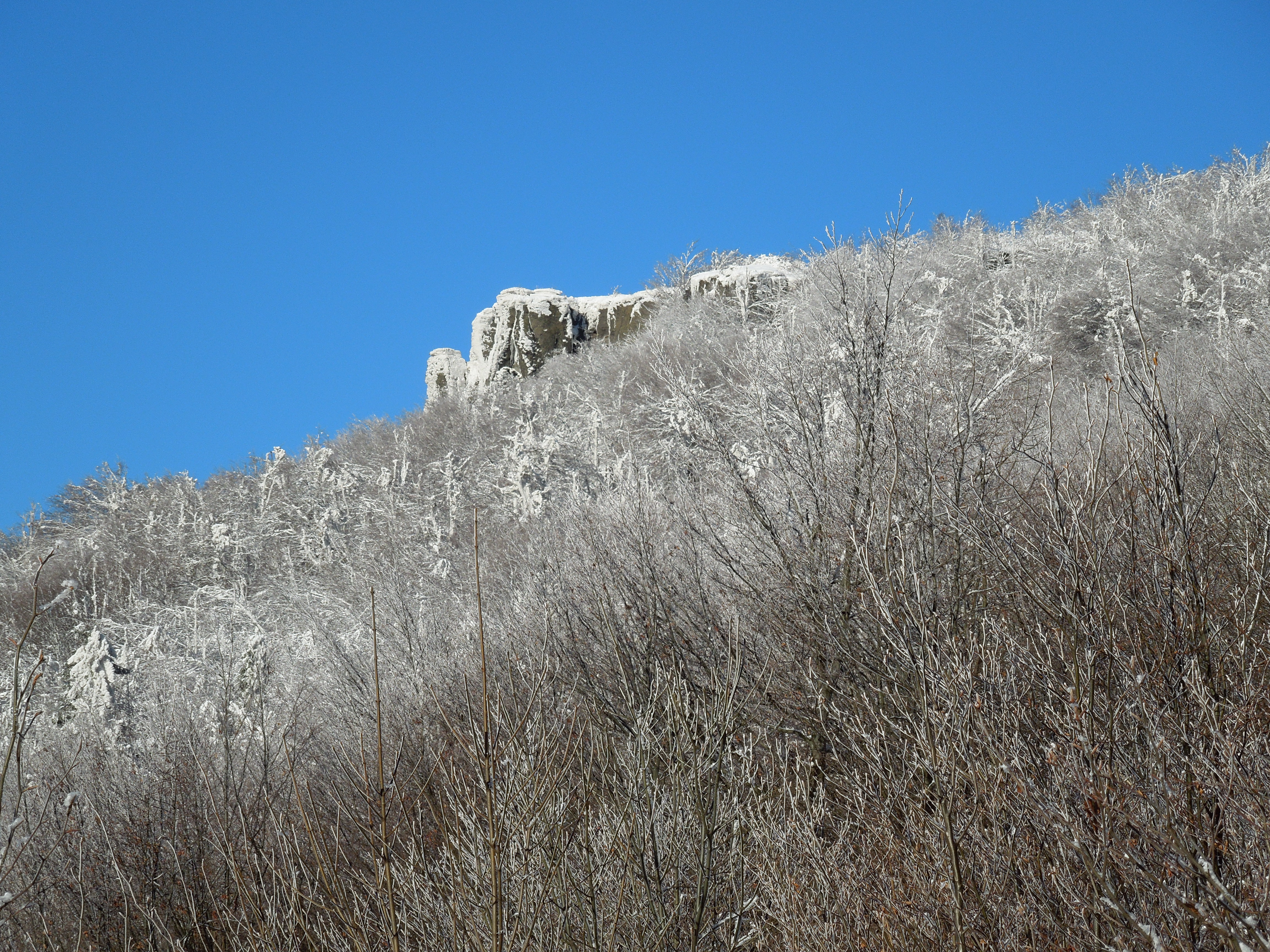 View of Sninský kameň in winter This is a photography of Natura 2000 protected area with ID SKUEV0209